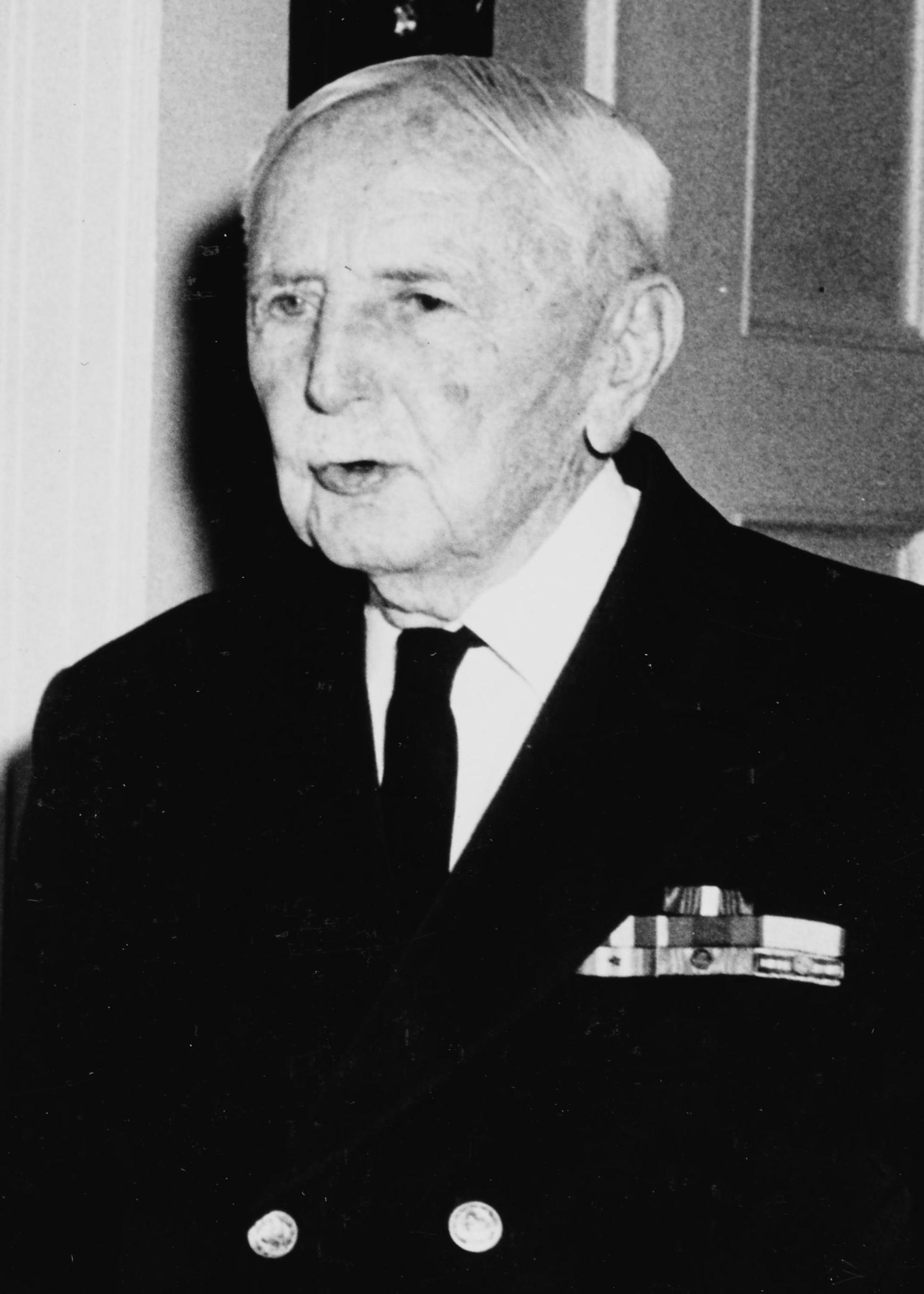 Oldest living graduate of U.S. Naval Academy, December 1968.